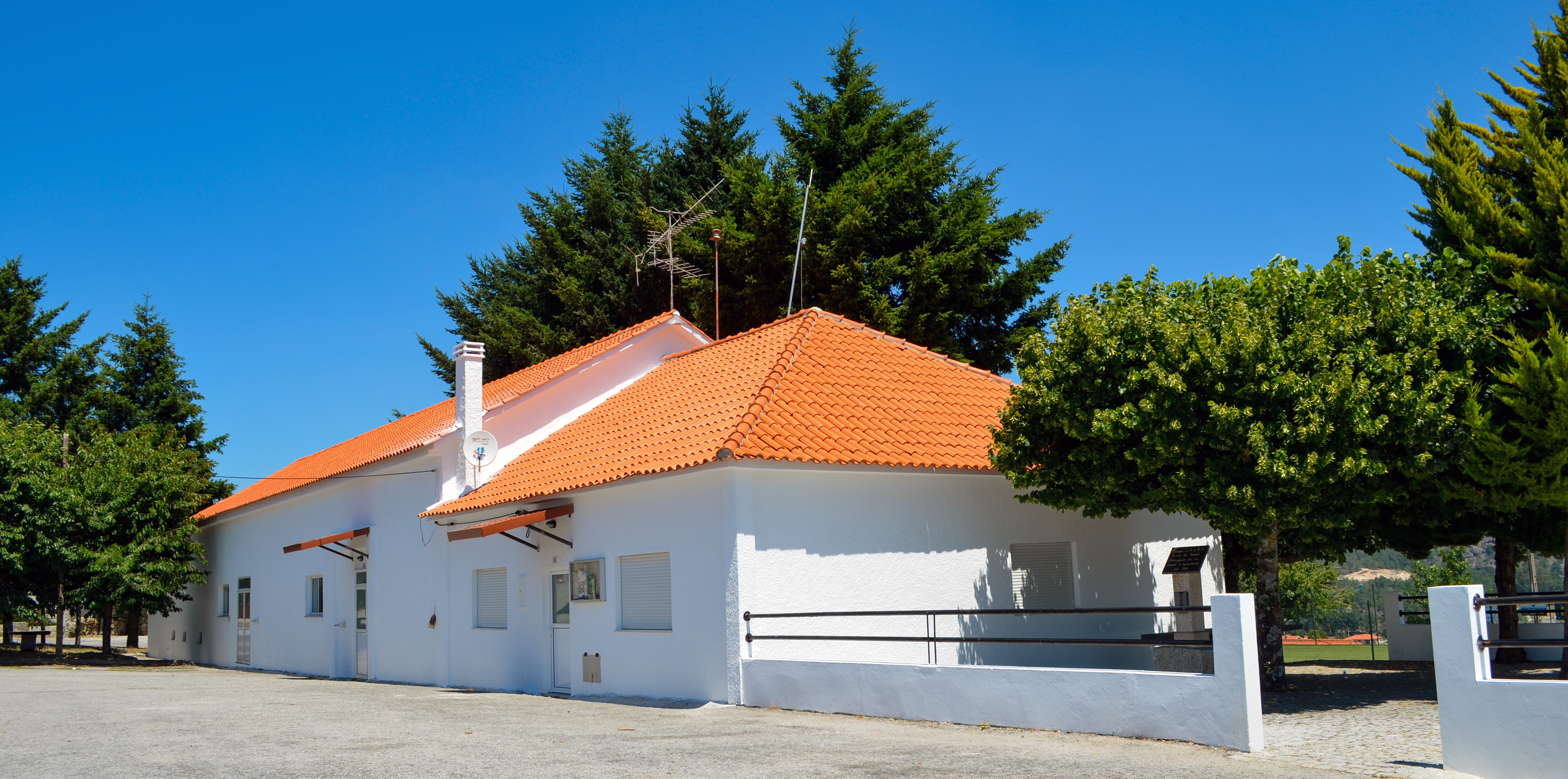 Headquarters and Hall of Parties of the Cultural and Recreational Club of Carapito, at Calvário.